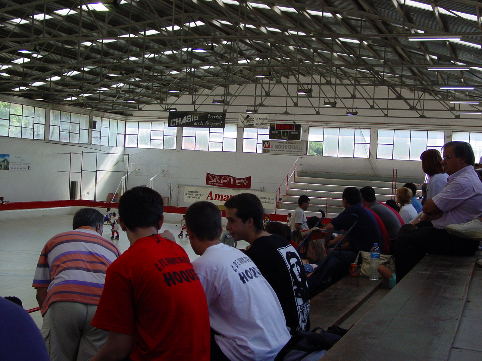 Centre d'Esports Arenys de Munt Hockey team in 2003